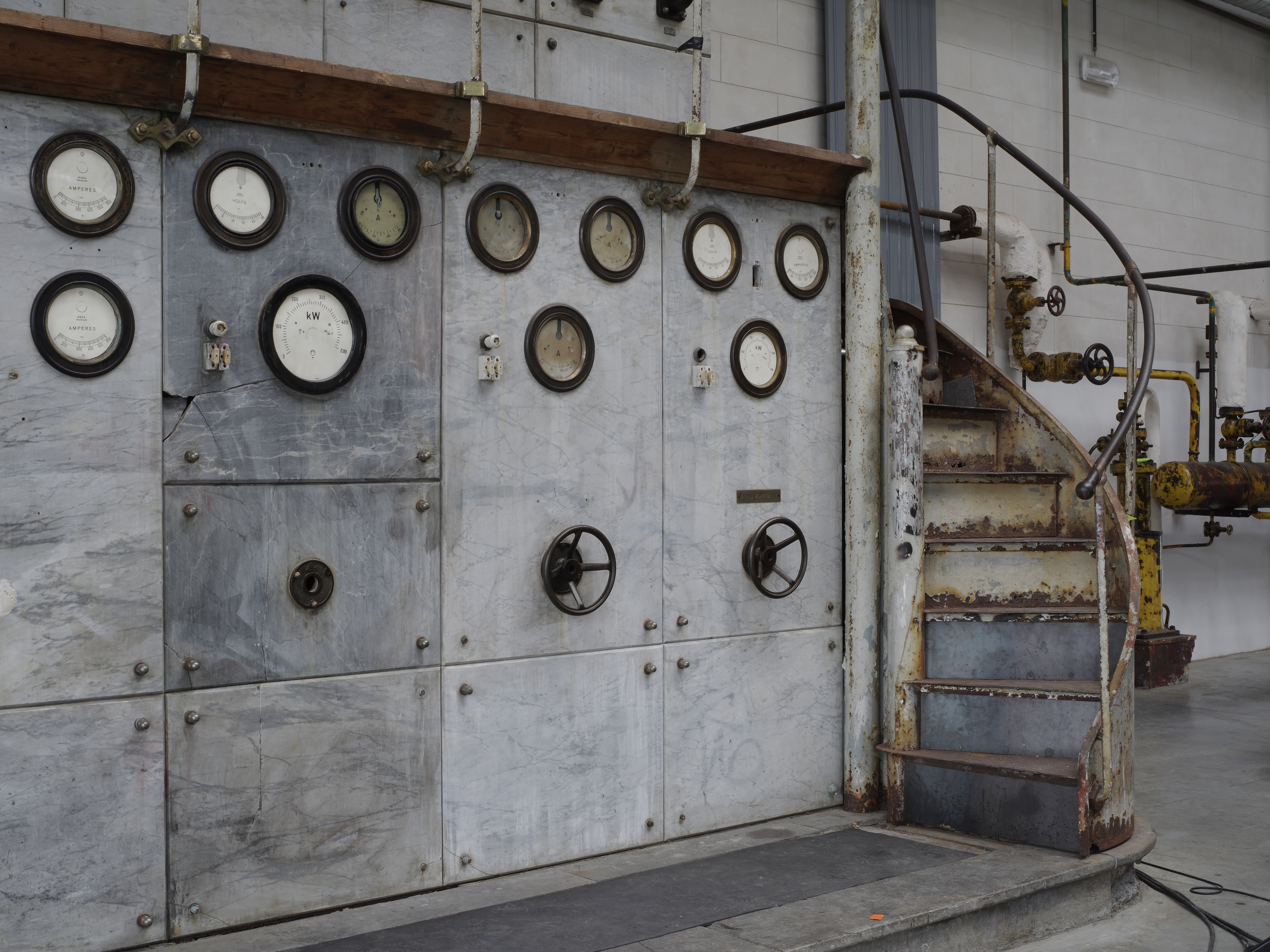 BRASS, the machine room of the former brewery Wielemans-Ceuppens at avenue Van Volxem 364 in 1190 Brussels (Forest).